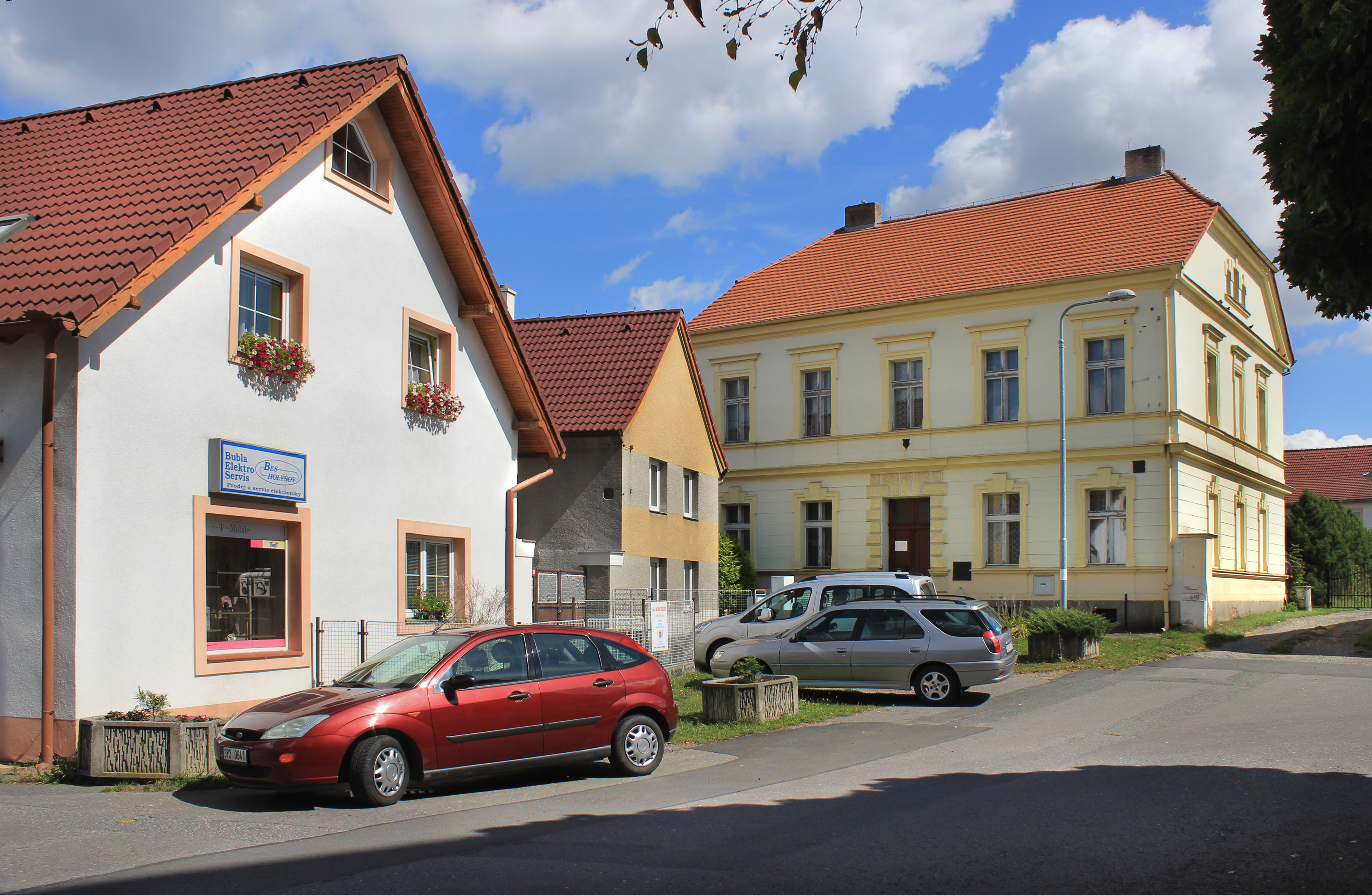 5. května square in Holýšov, Czech Republic.